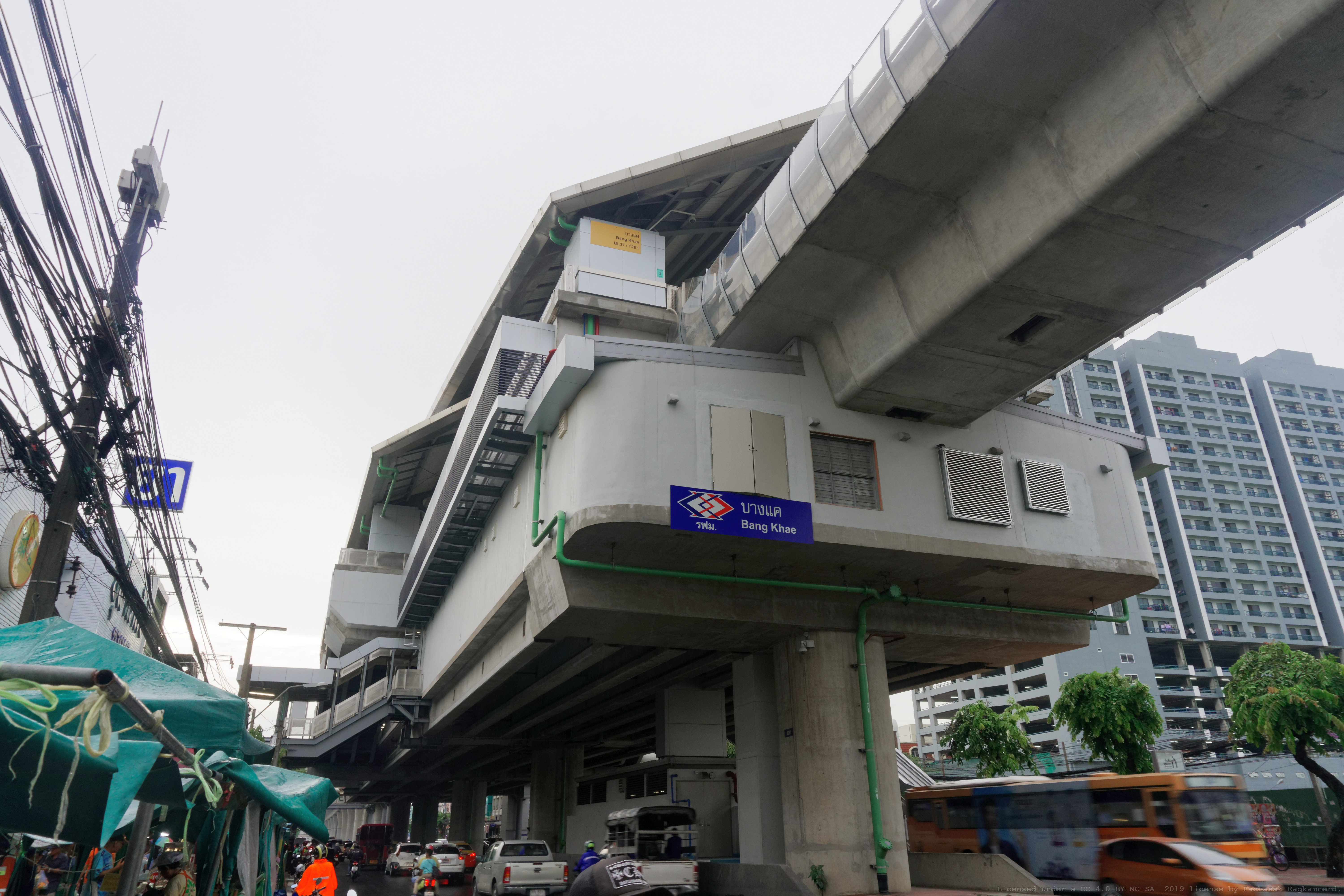 MRT Bangkae station: station view from the nearby pedestrian path.